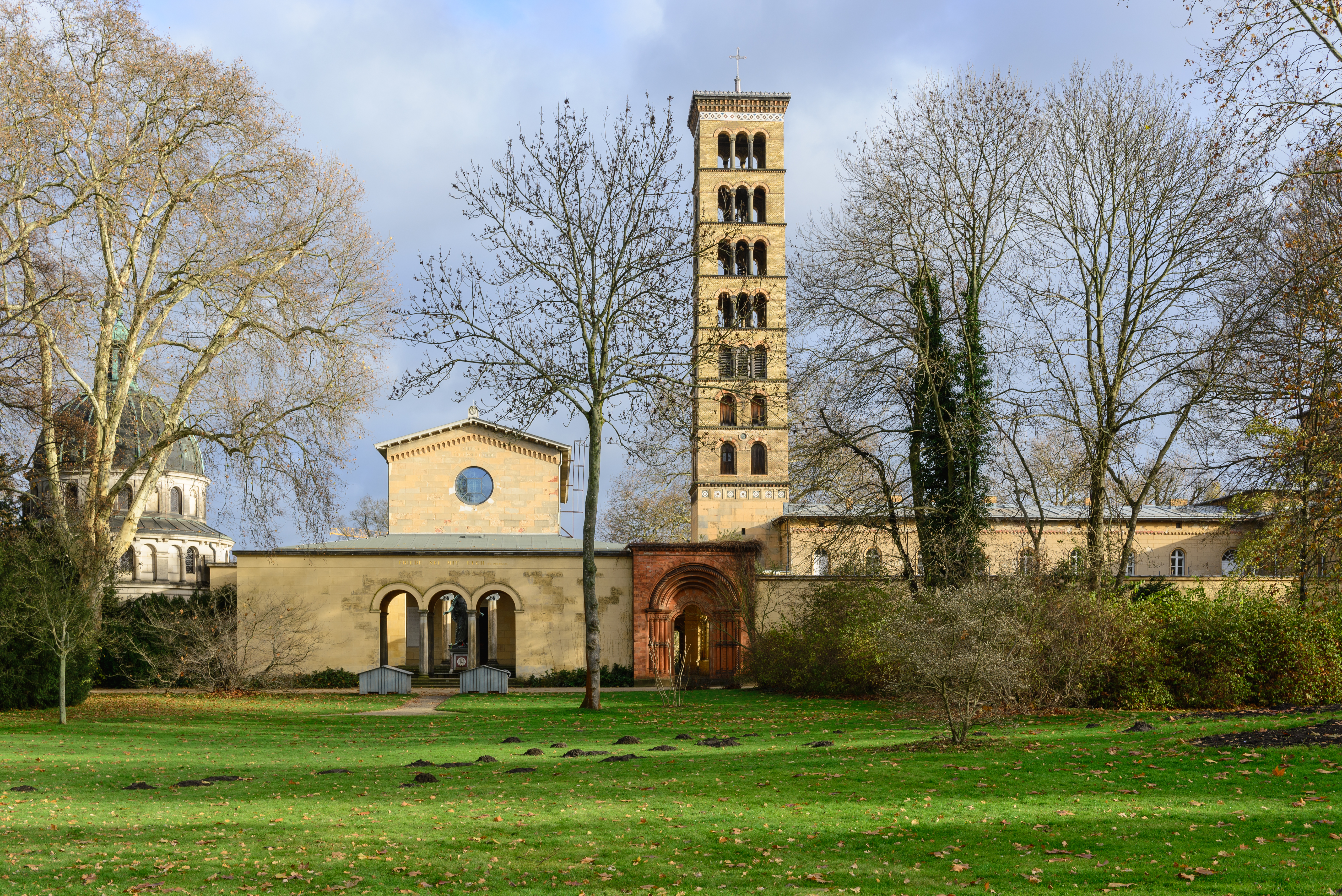 Friedenskirche (The Church of Peace) in Potsdam (Brandeburg), Germany. View from Marlygarten im Schloßpark Sanssouci.